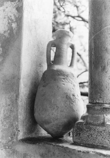 old Sonvico pictures